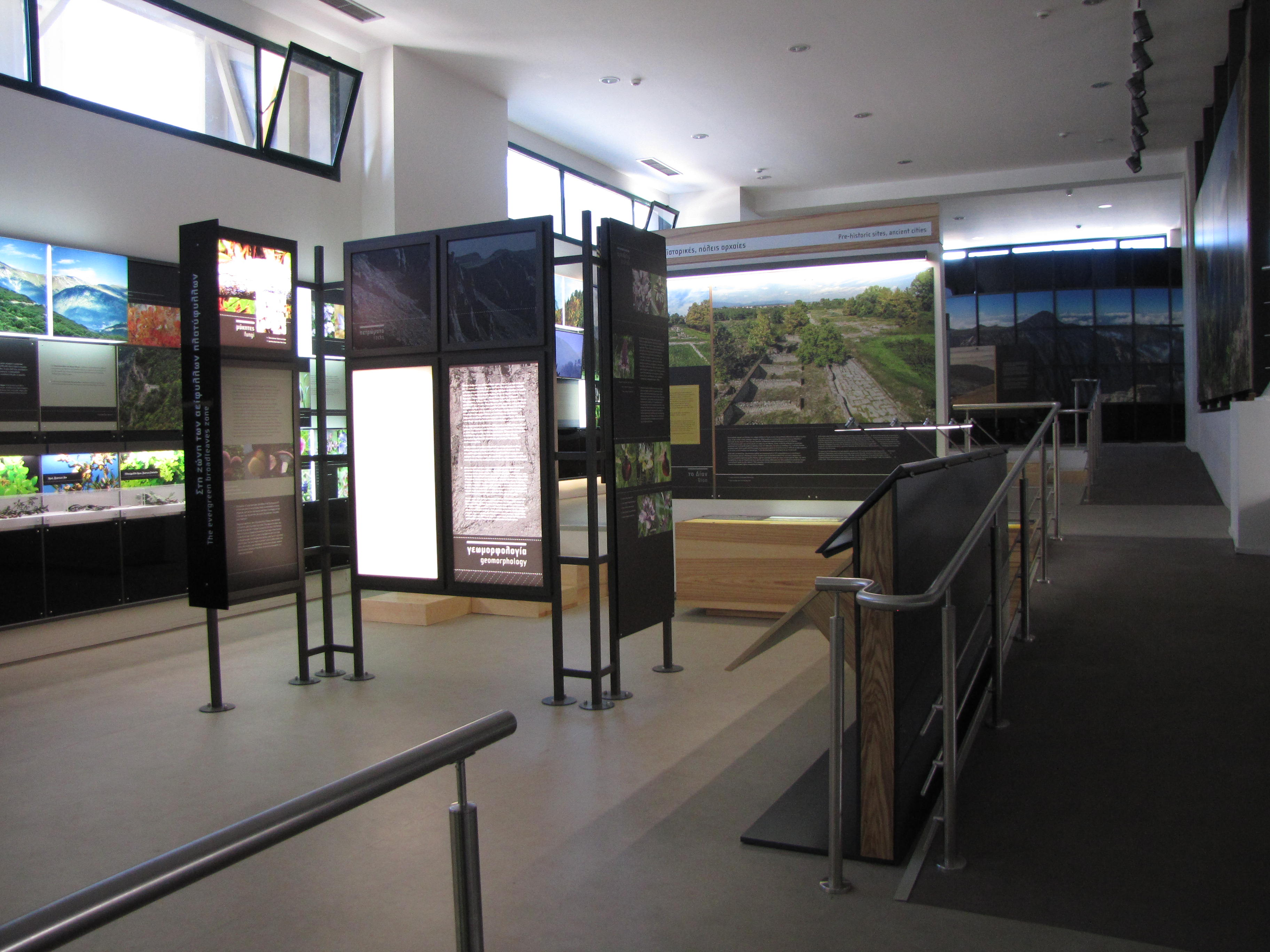 Exhibition Olympus-Nationalpark-Information-Center